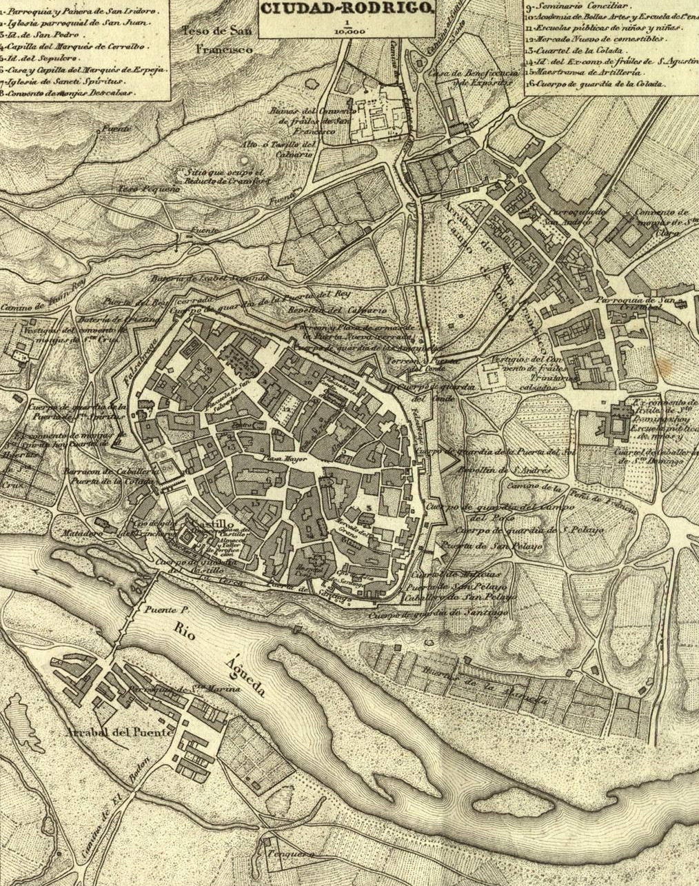 Map of Ciudad Rodrigo cropped from the 1867 province of Salamanca map by Francisco Coello